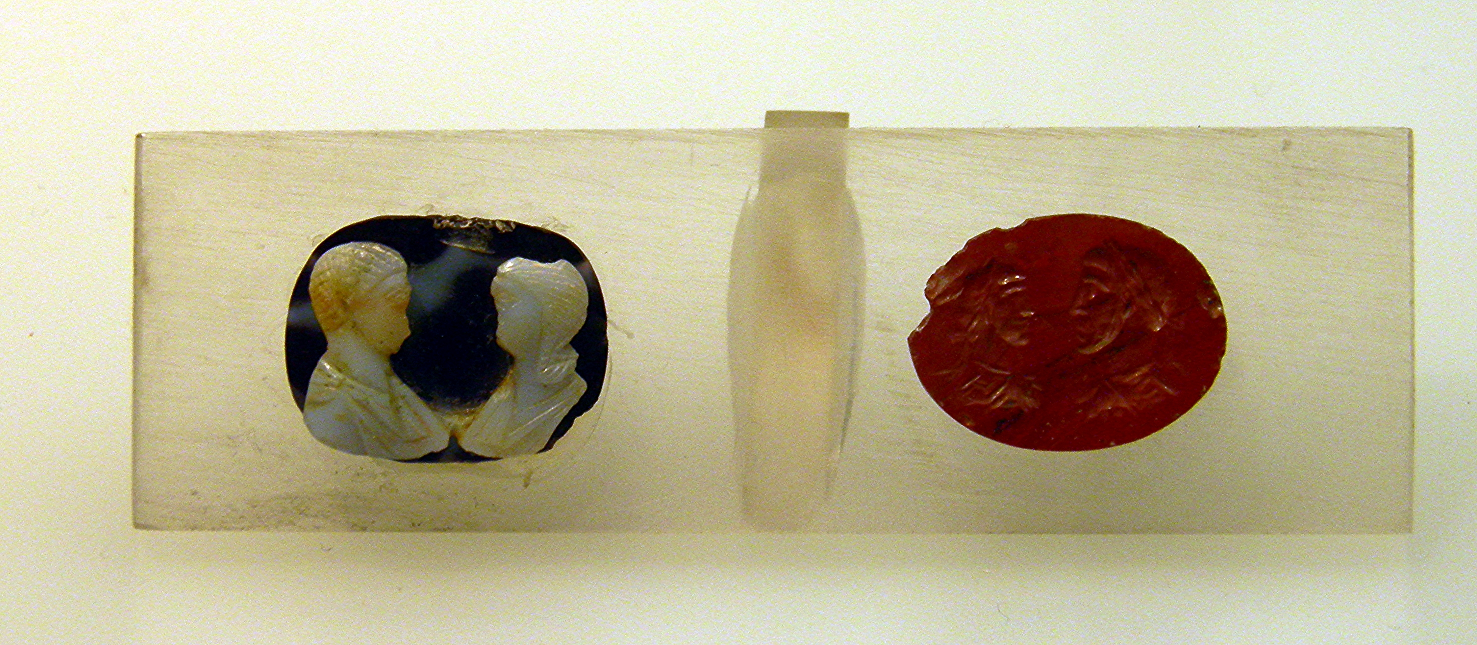 Cameo of Caracalla and Plautilla, Romisch-Germanisches Museum, Cologne